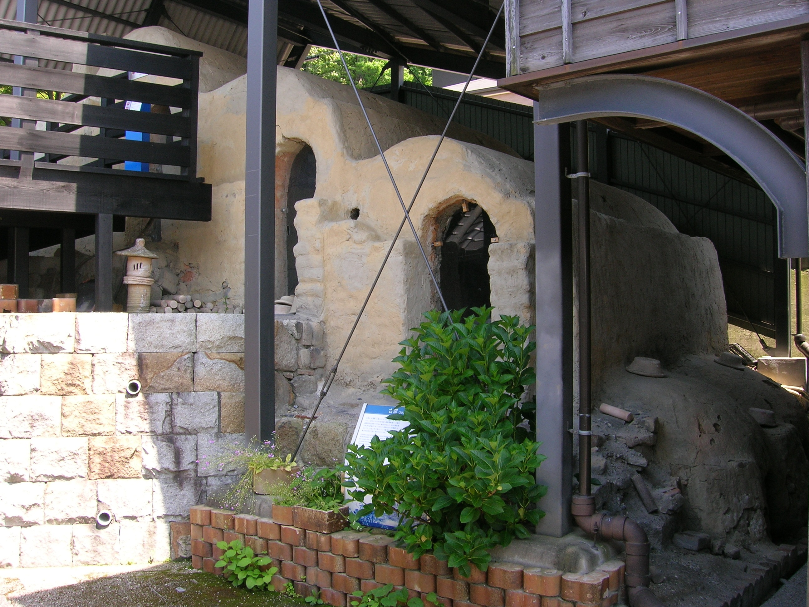 Seto Municipal Center of Multimedia and Traditional Ceramics, Kogama (Old kiln). Loc: Seto city, Aichi Prefecture, Japan. 瀬戸市マルチメディア伝承工芸館（現・瀬戸染付工芸館）・古窯館 撮影場所 愛知県瀬戸市